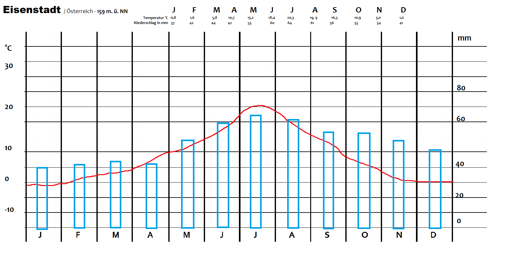 A climate table of the town Eisenstadt in Austria.